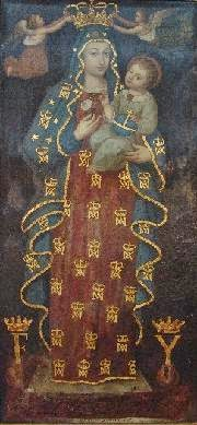 Painting of the Nuestra Señora de la Rosa (Our Lady of the Rose) which was placed in the gate, it see clearly the initials of the Catholic Monarchs to both sides of the virgin and the rose in her hand.